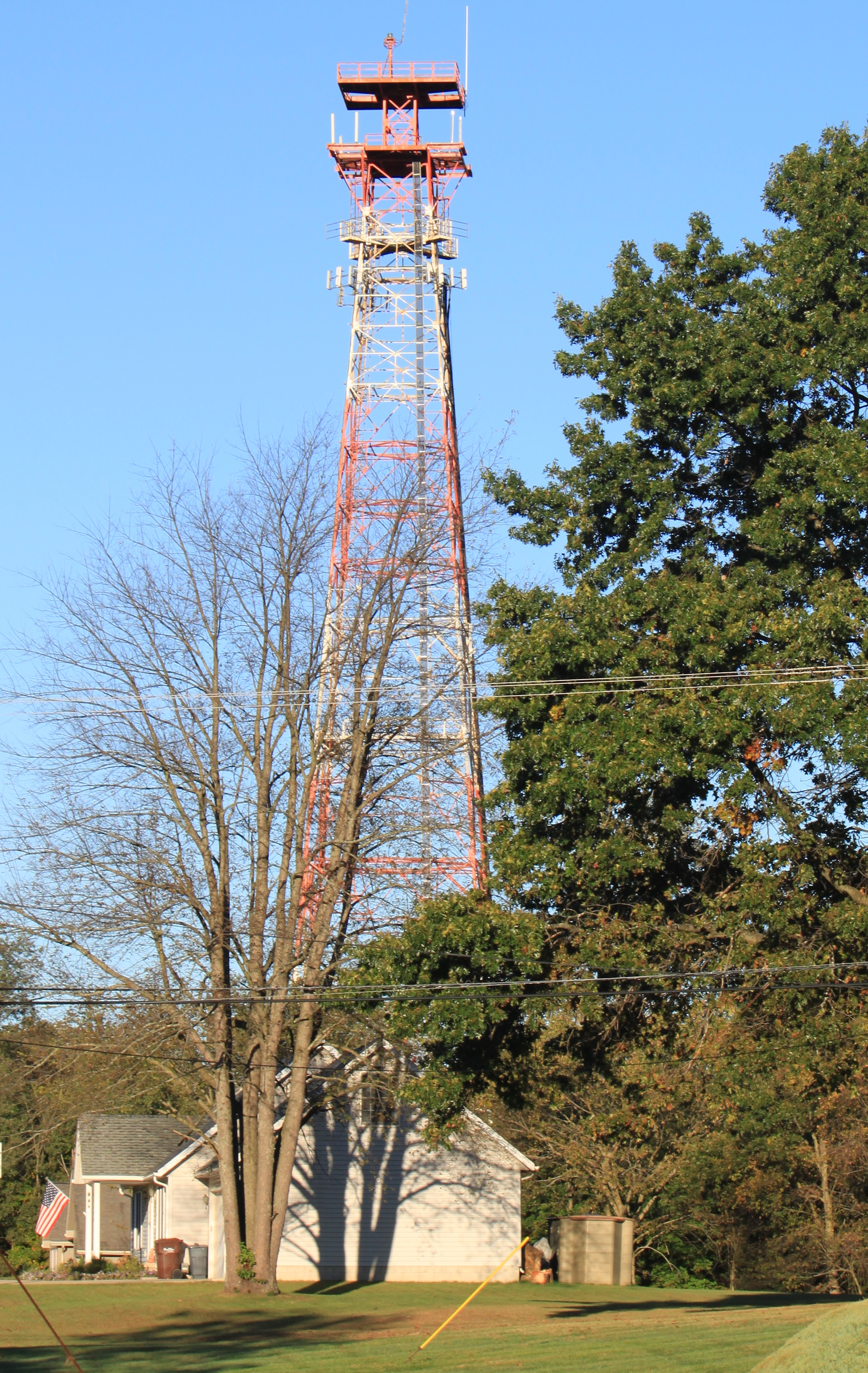 American Tower "Sumpter" wireless tower #87830, 45700 Dunn Road, Belleville (Sumpter Township), Michigan. source of information